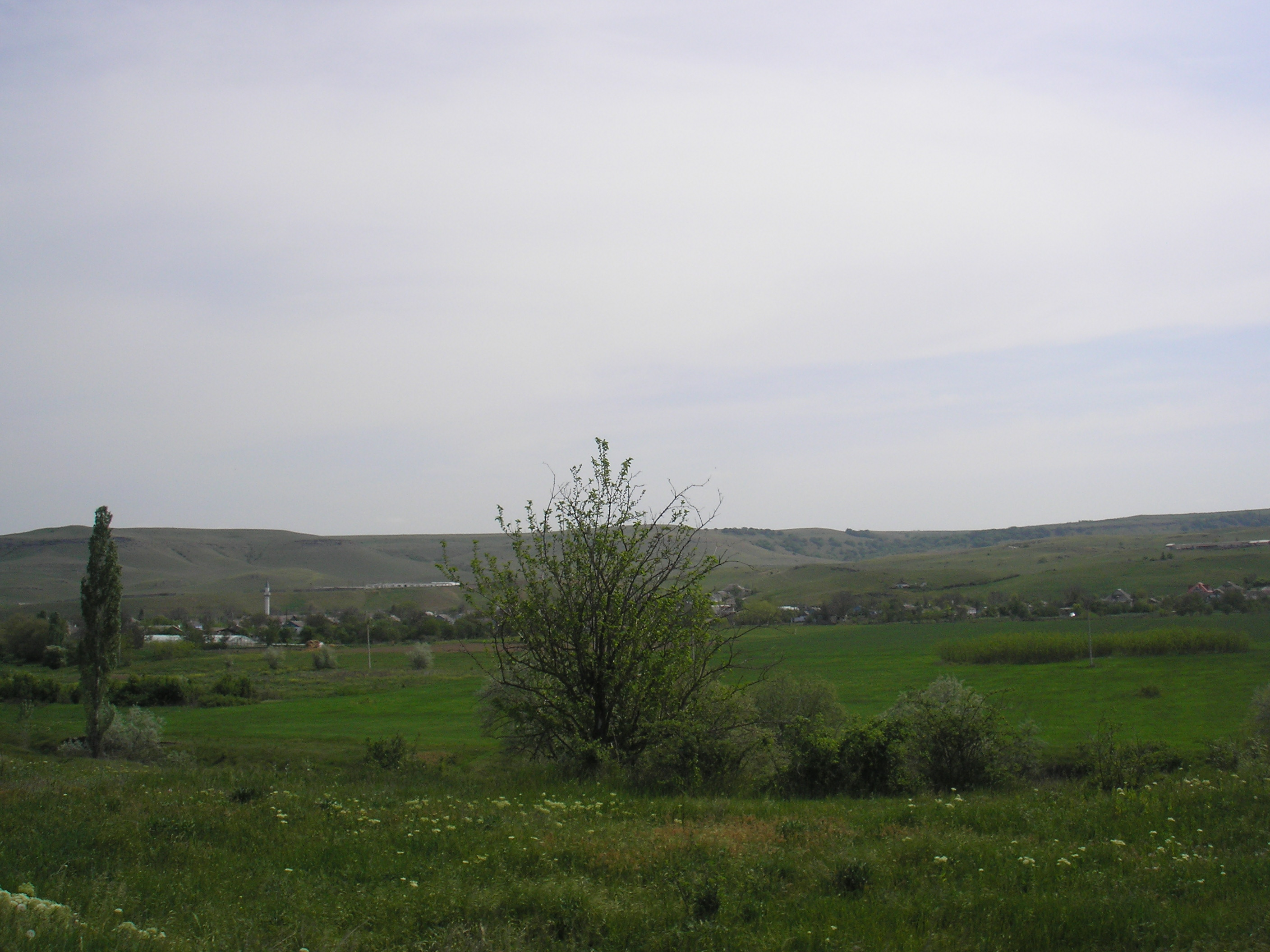 Village Vishennoe, Belogorsky region, Crimea.